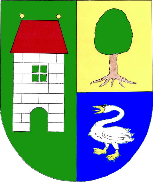 Municipal coat of arms of Druztová village, Plzeň-North District, Czech Republic.